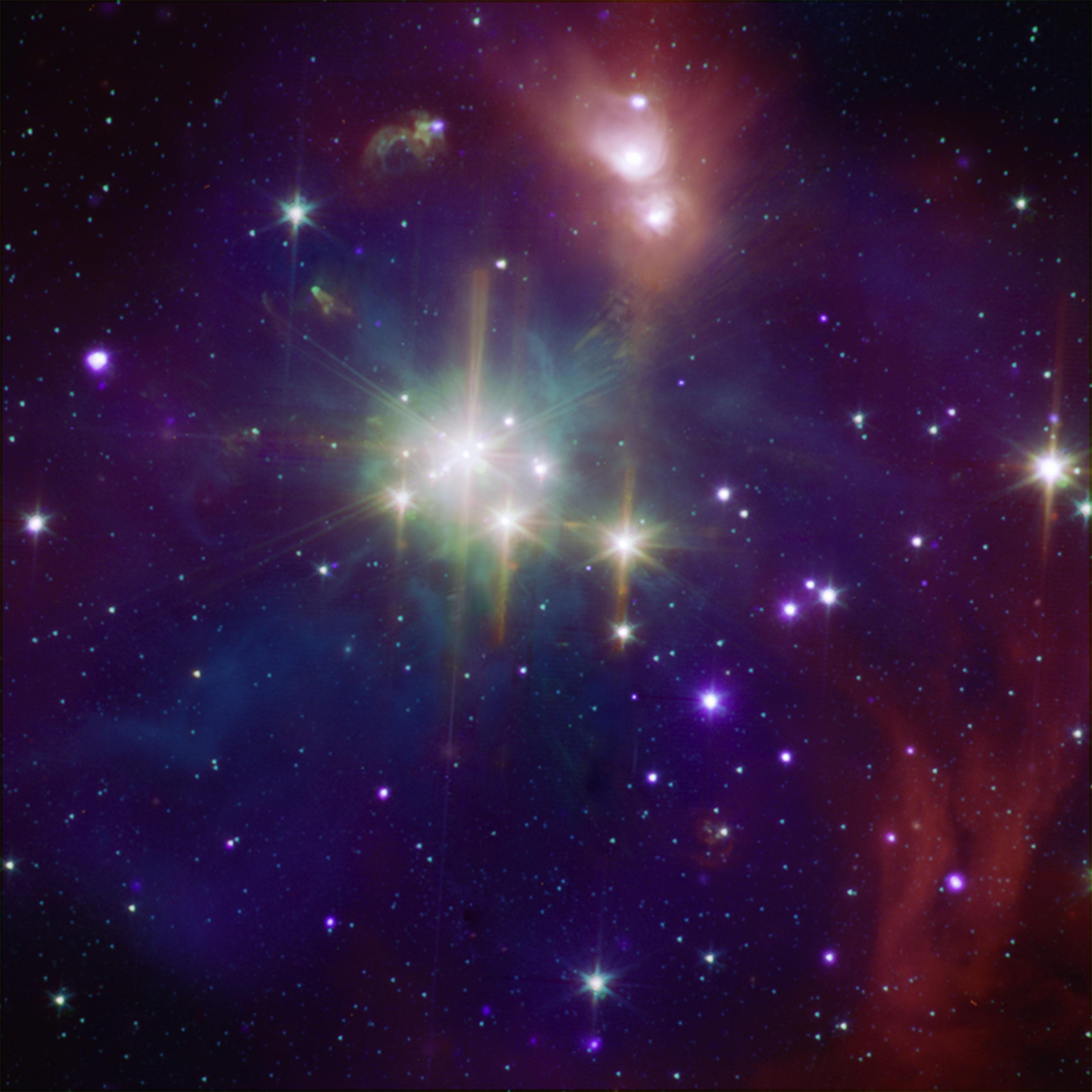 While perhaps not quite as well known as its star-formation cousin Orion, the Corona Australis region (containing, at its heart, the Coronet cluster) is one of the nearest and most active regions of ongoing star formation. At only about 420 light-years away, the Coronet is over three times closer than the Orion nebula is to Earth. The Coronet contains a loose cluster of a few dozen young stars with a wide range of masses and at various stages of evolution, giving astronomers an opportunity to observe embryonic stars simultaneously in several wavelengths. This composite image shows the Coronet in X-rays from Chandra (purple) and infrared from Spitzer (orange, green, and cyan). The Spitzer image shows young stars plus diffuse emission from dust. Due to the host of young stars in different life stages in the Coronet, astronomers can use these data to pinpoint details of how the youngest stars evolve.